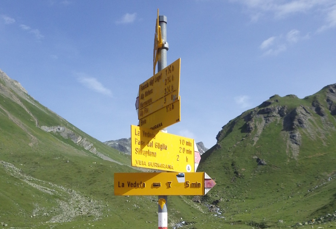 Fingerpost Parking Val d'Agnel, below La Veduta, Julierpass road (Bivio, Grison, Switzerland)